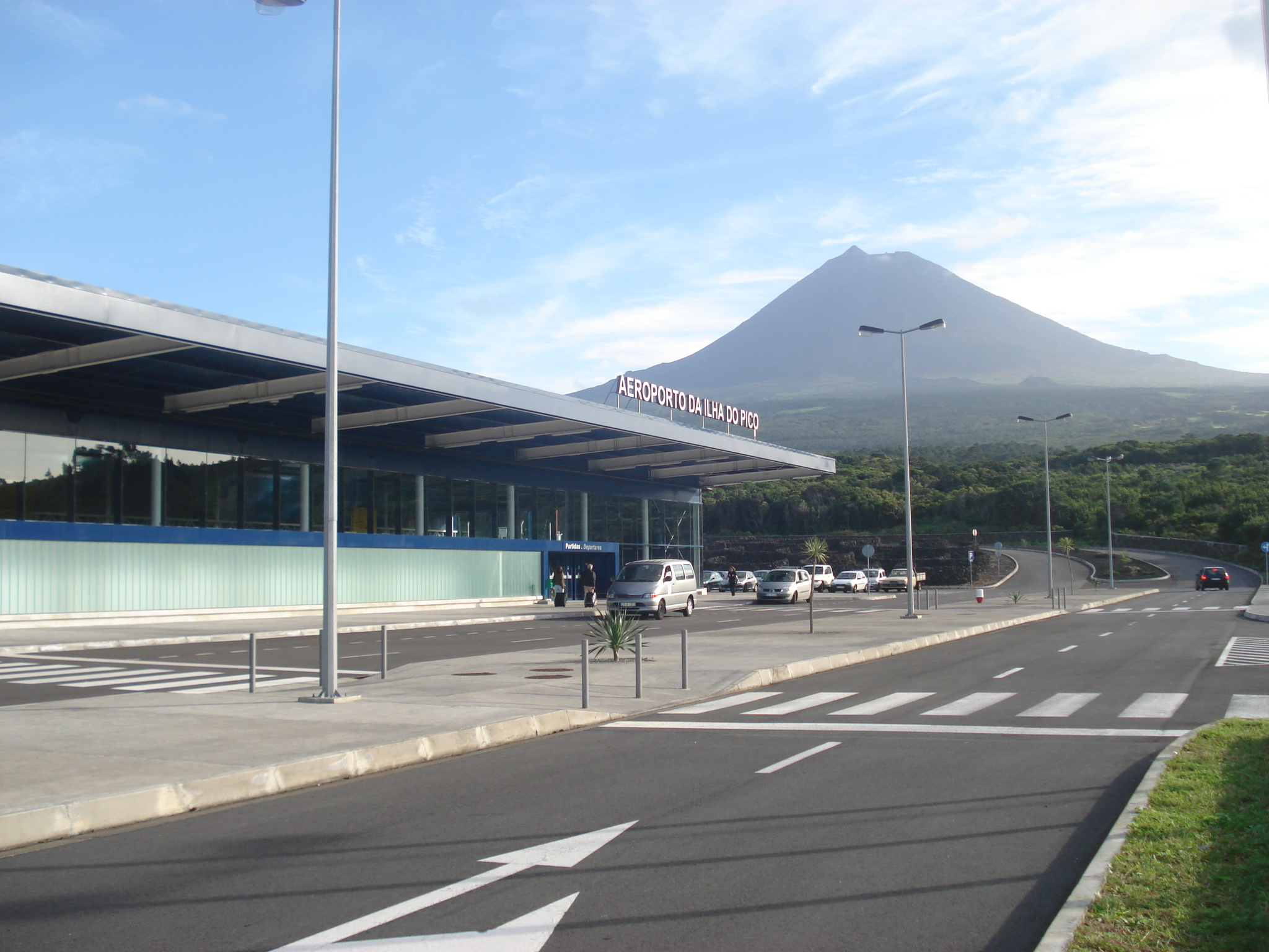 A view of the terminal building, with Mount Pico in the background, civil parish of Bandeiras, municipality of Madalena (Azores), Portugal